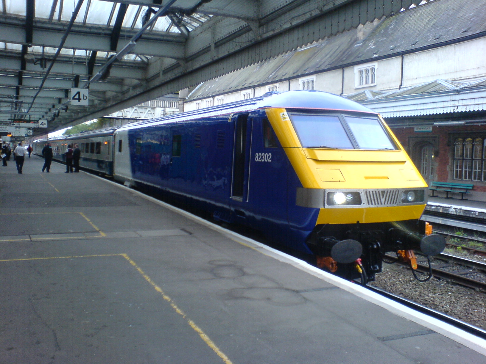 A Wrexham & Shropshire DVT in Chiltern Railways livery after their takeover.